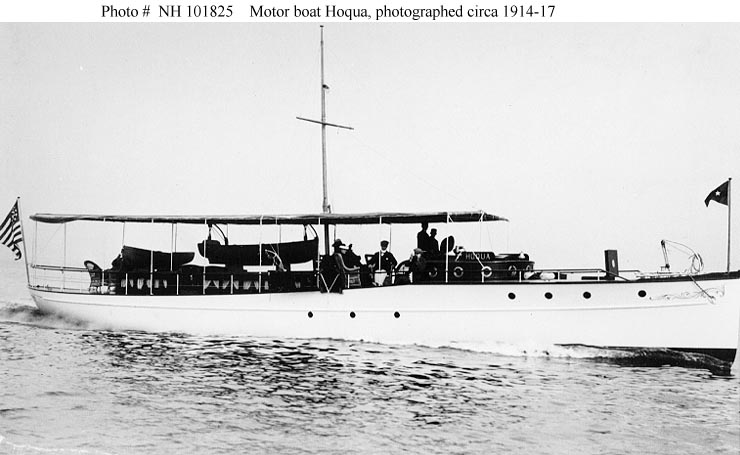 Civilian motor yacht Hoqua, prior to her United States Navy service as patrol vessel USS Hoqua (SP-142)